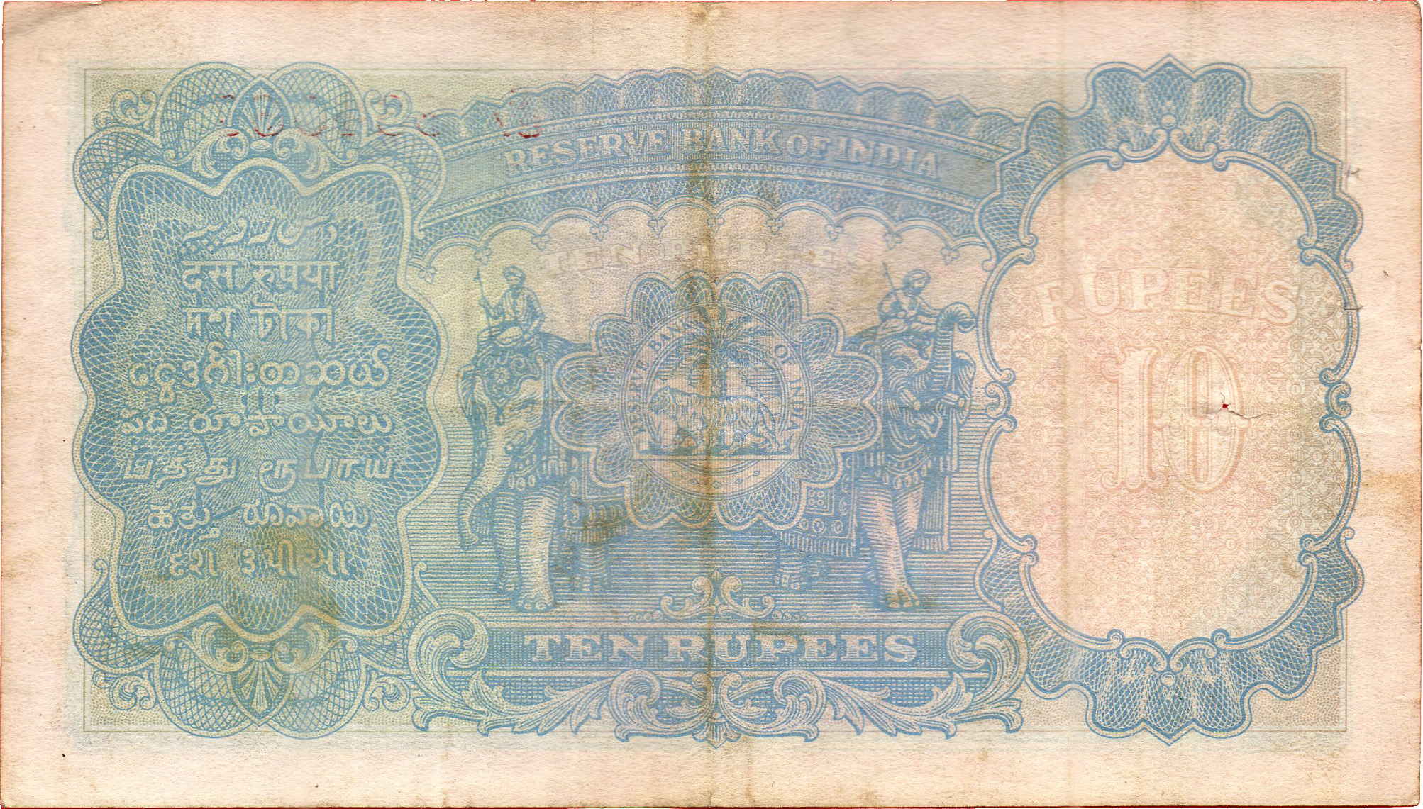 C-87 Series (1937-43) Indian Ten rupees banknote. Reverse.